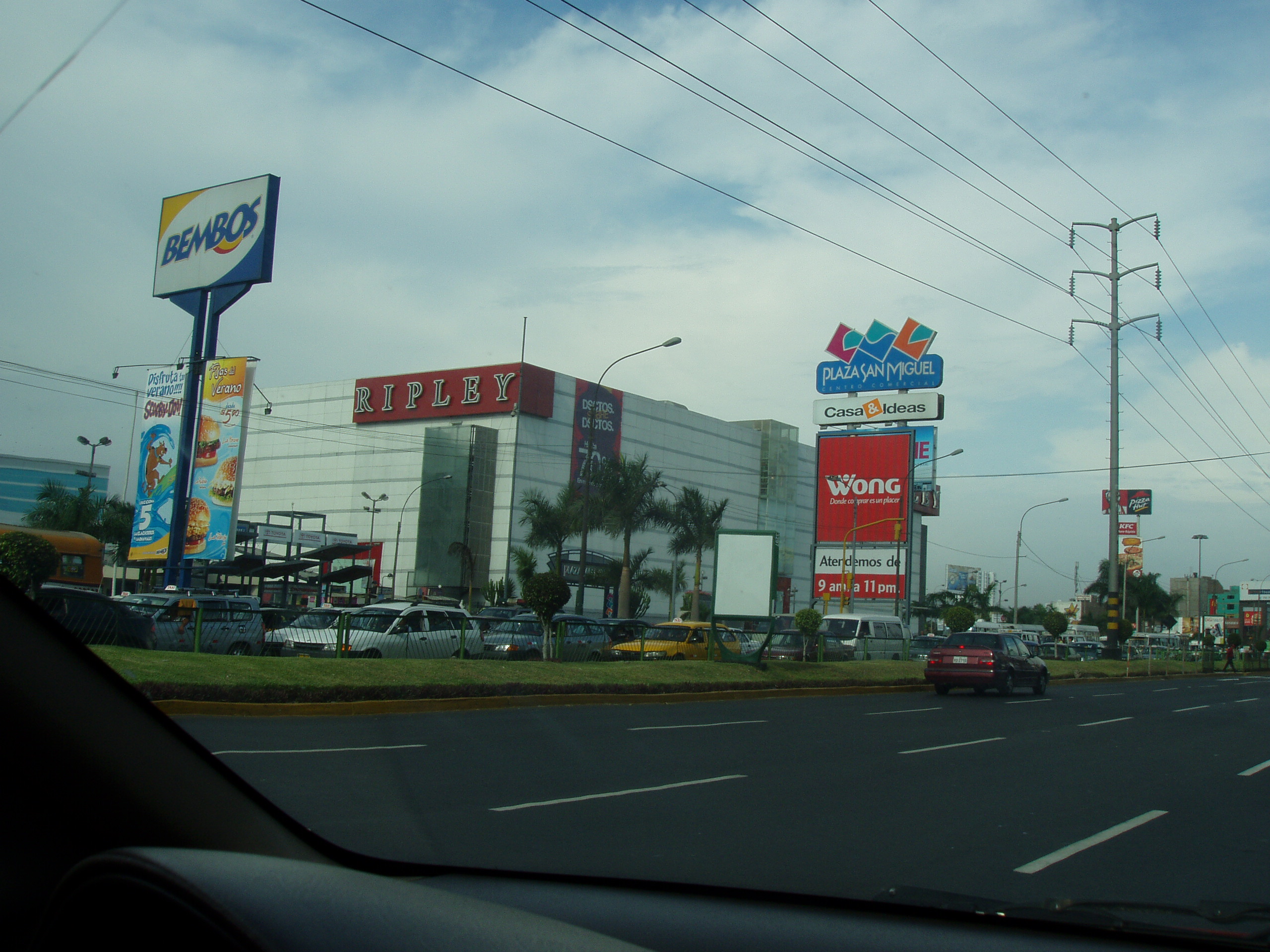 Ripley at Plaza San Miguel